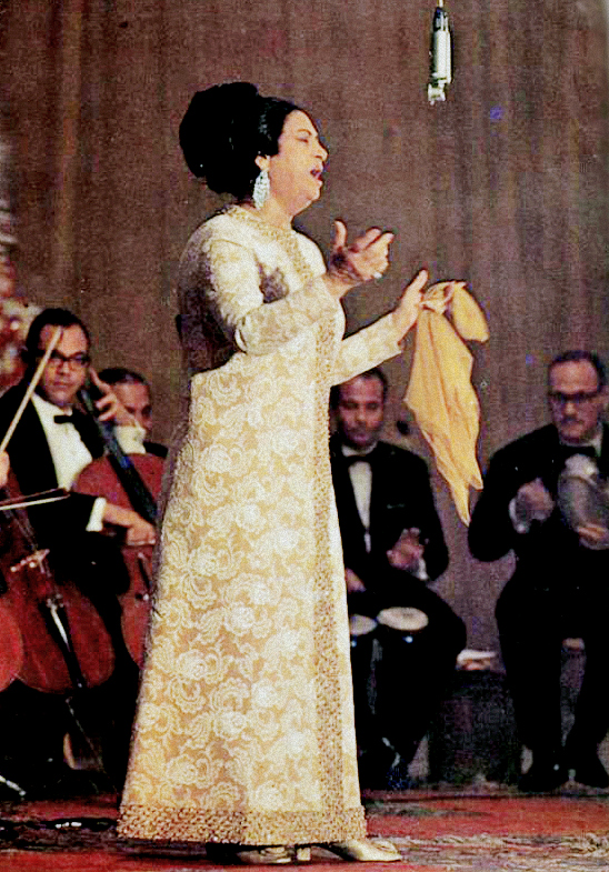 A photo of the Egyptian Singer Umm Kulthum who died in 1975 at age 71.